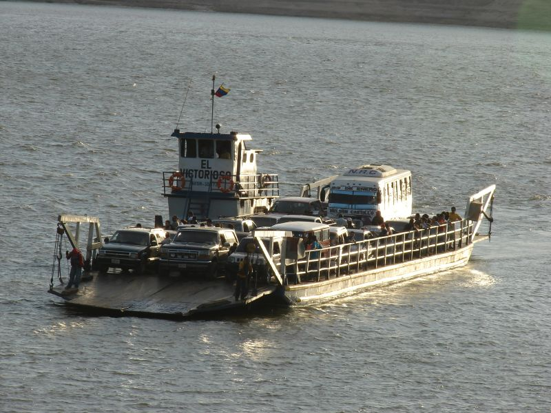 Crossing the Orinoco in a lighter